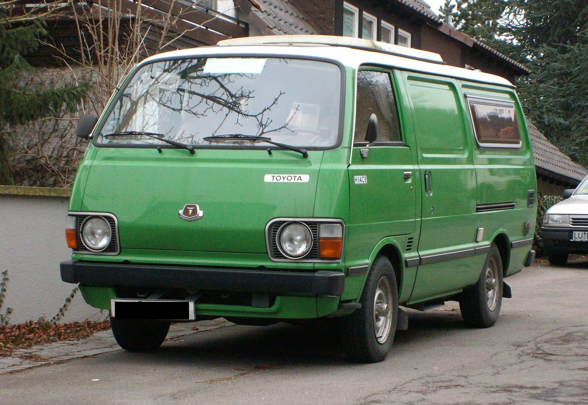 Toyota Hiace, second generation, camping version, with German licence plates (take a look at Toyota_Hiace_(second generation)_D_back.jpg)